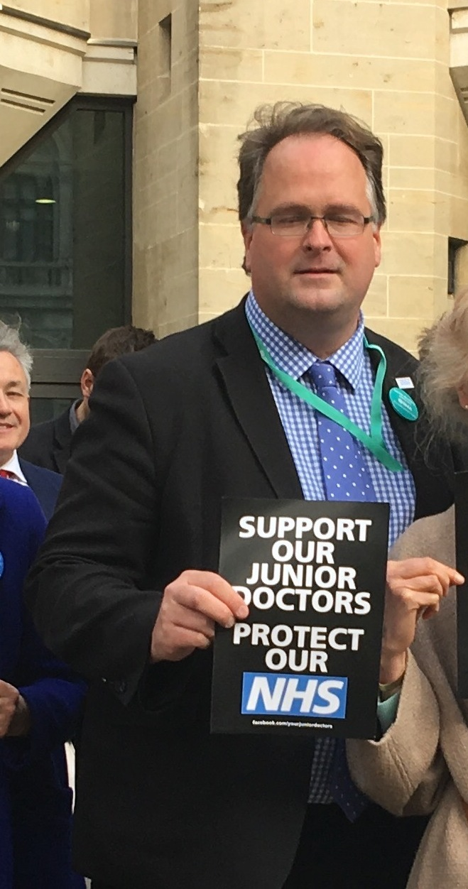 Dr Wrigley & Dr Davis supporting junior doctors outside Dept of Health, London